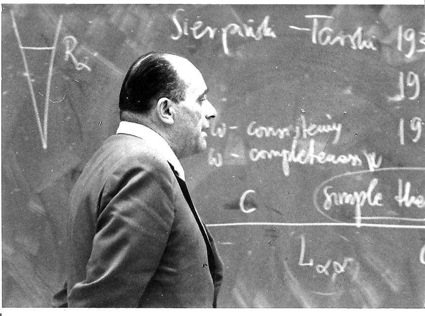 This photo is a private photo taken in 1973 in Poland. Polish Law does not protect photos that are older than 15 years.